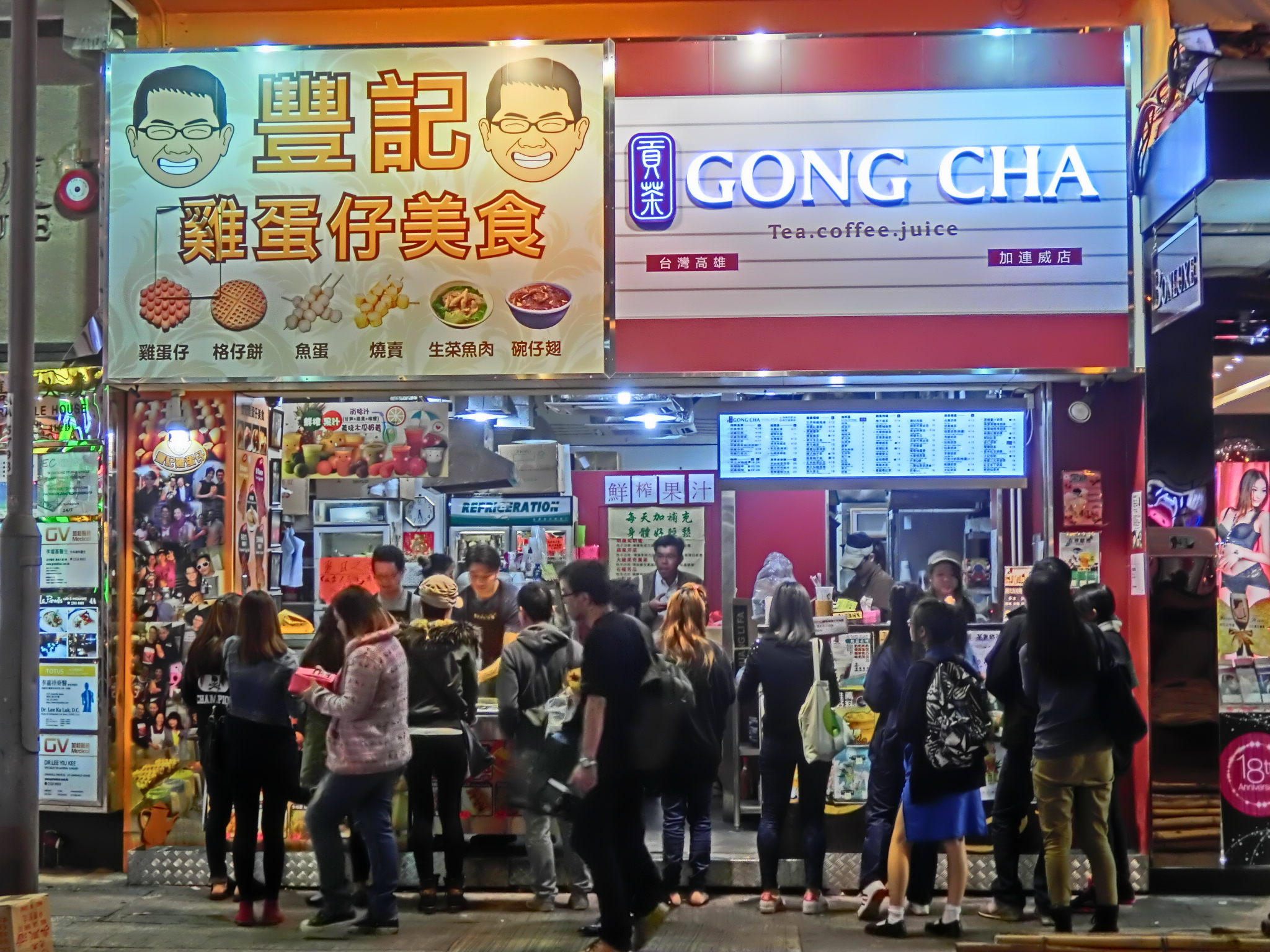 尖沙咀 加連威老道, Granville Road, Tsim Sha Tsui, Hong Kong